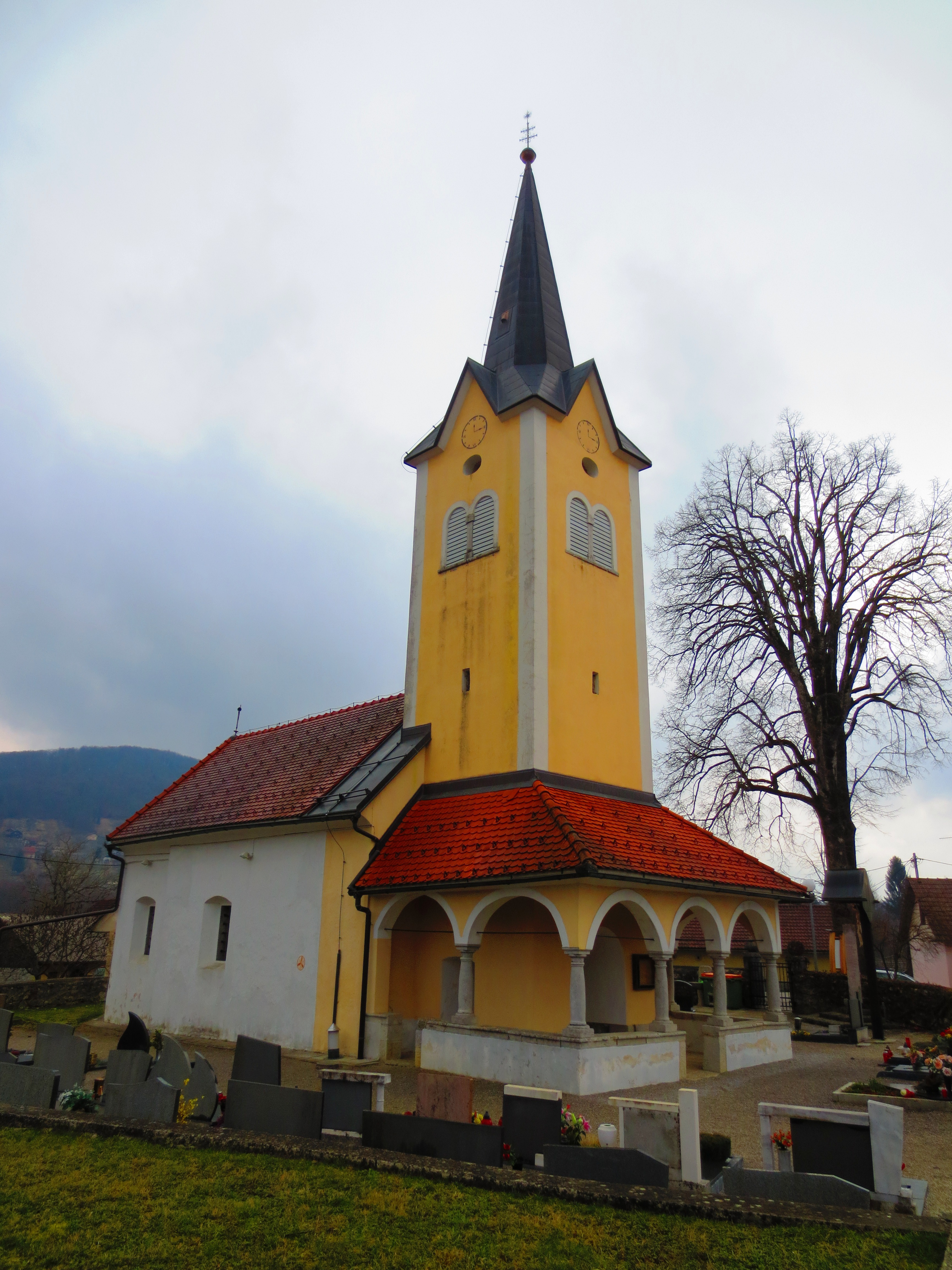 Church st. Mary Drganja sela